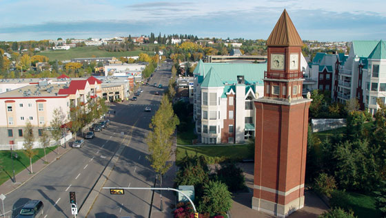 St Albert Clocktower Downtown. Originally posted on Flickr; Licensed under Creative Commons Attribution-Sharelike 3.0 license; this photo originally uploaded to en: by User:Fellowedmonton; it is uploaded here to Commons by me User:Mr Accountable.